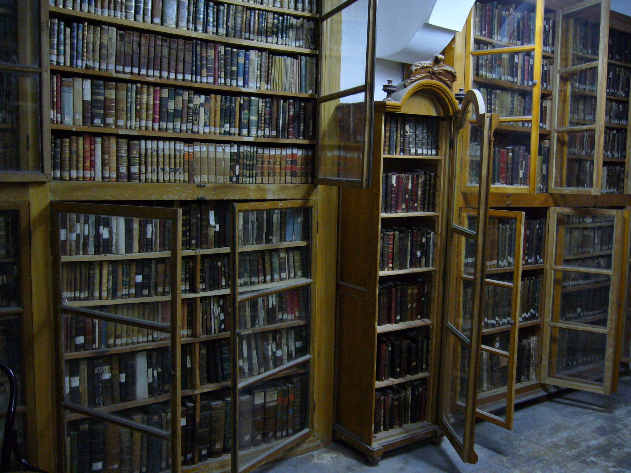 Mount Athos (Greece)